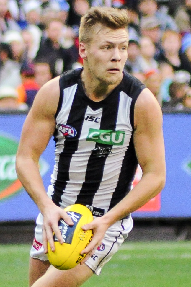 Jordan De Goey during the AFL round twelve match between Melbourne and Collingwood on 12 June 2017 at the Melbourne Cricket Ground in Melbourne, Victoria.